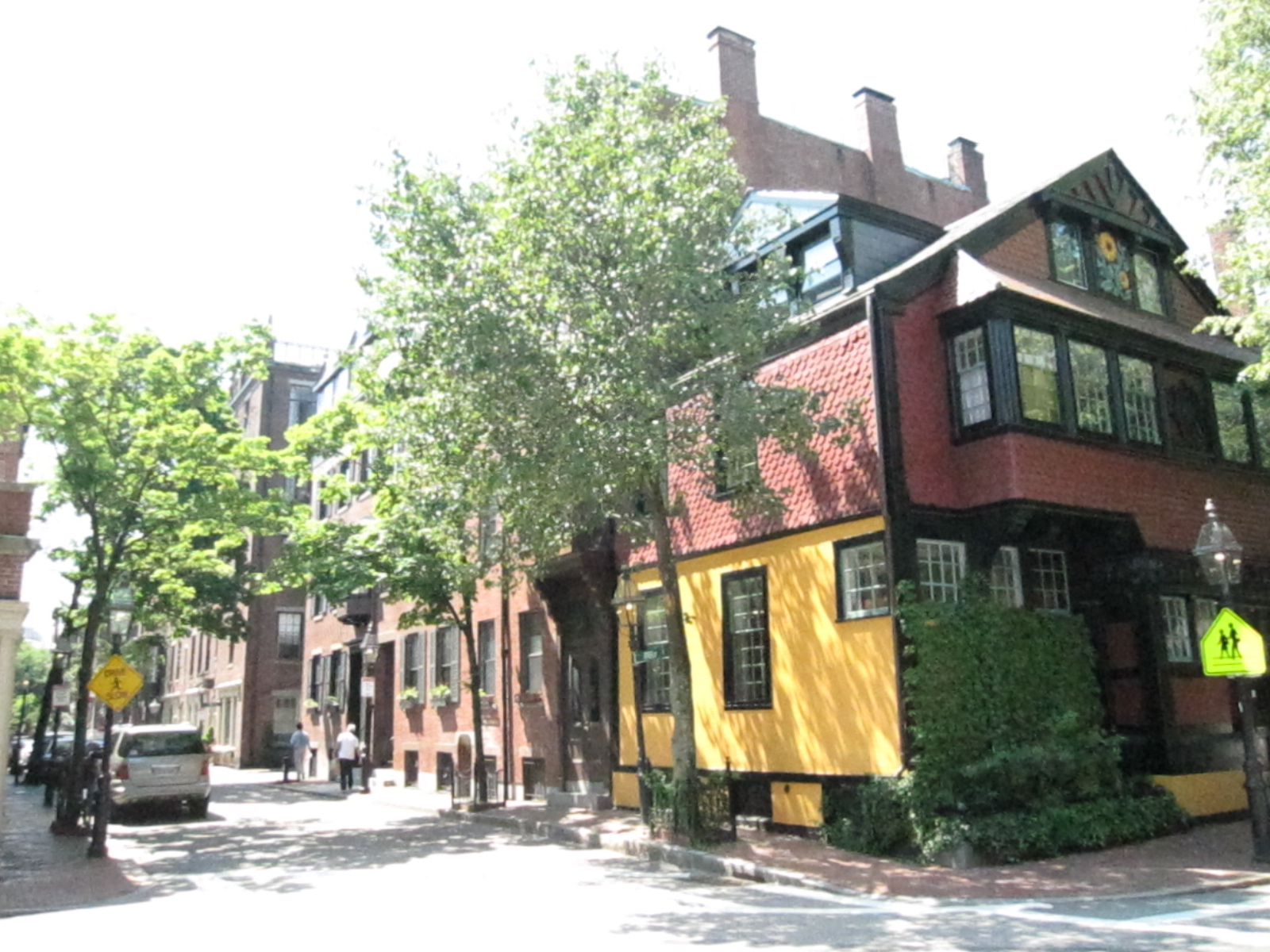 Mt. Vernon St., Boston